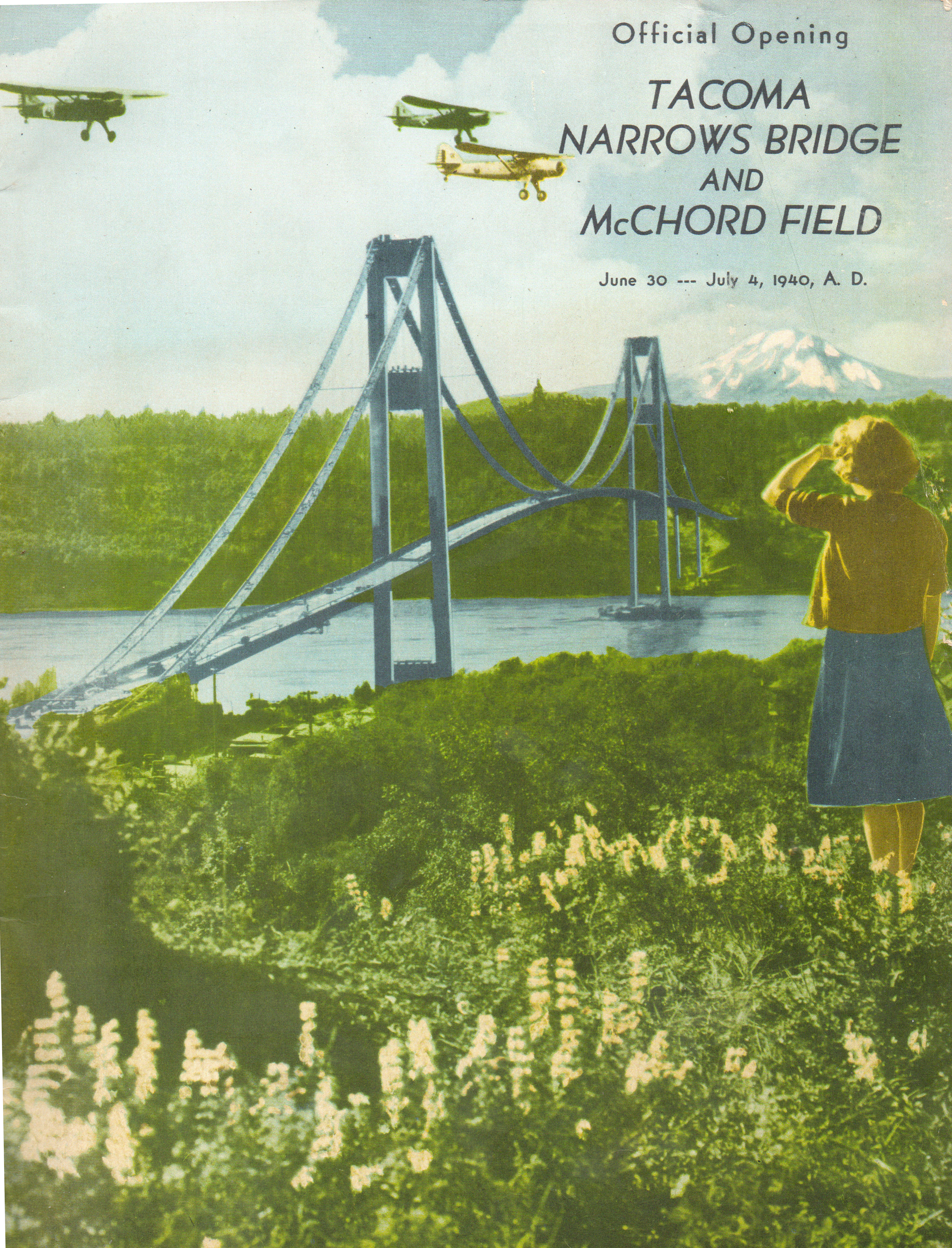 Cover of the 38-page program for the opening ceremonies for the Tacoma (WA) Narrows Bridge and McChord Field (USAAF), now McChord AFB, part of Joint Base Lewis-McChord, Lakewood, WA.